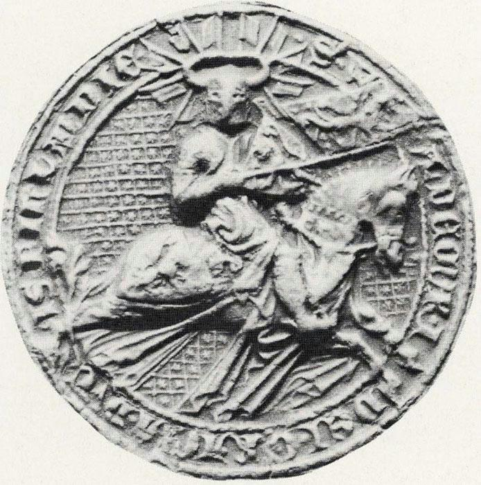 Prince Waldemar (1284) of Sweden, as depicted on his royal seal